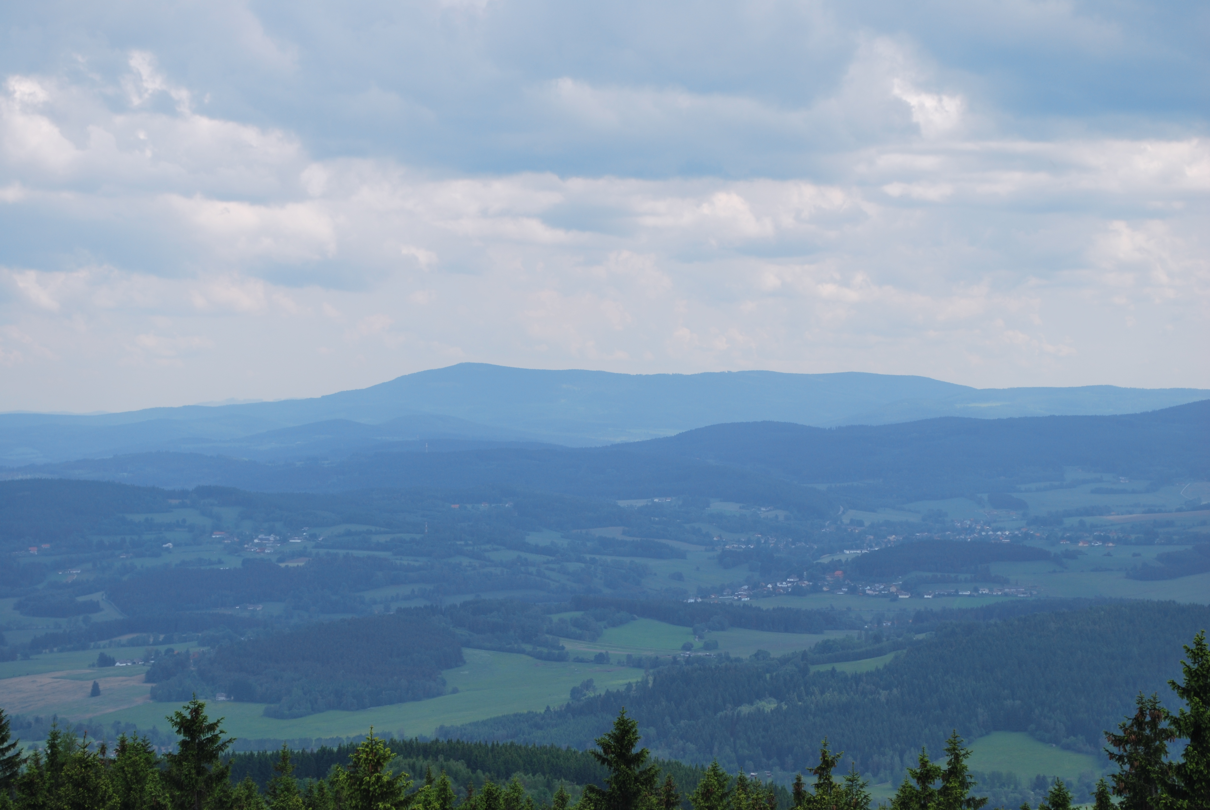 View to the Boubín hill. Klostermann watch tower near Javorník village in Prachatice District, Czech republic. This photograph was taken within the scope of the 'Czech Municipalities Photographs' grant.